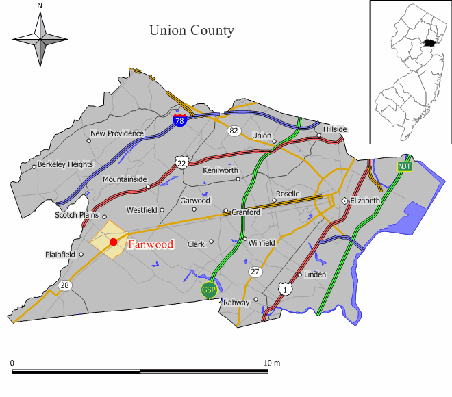 Source: Jim Irwin Original work by Jim Irwin, December 2005.